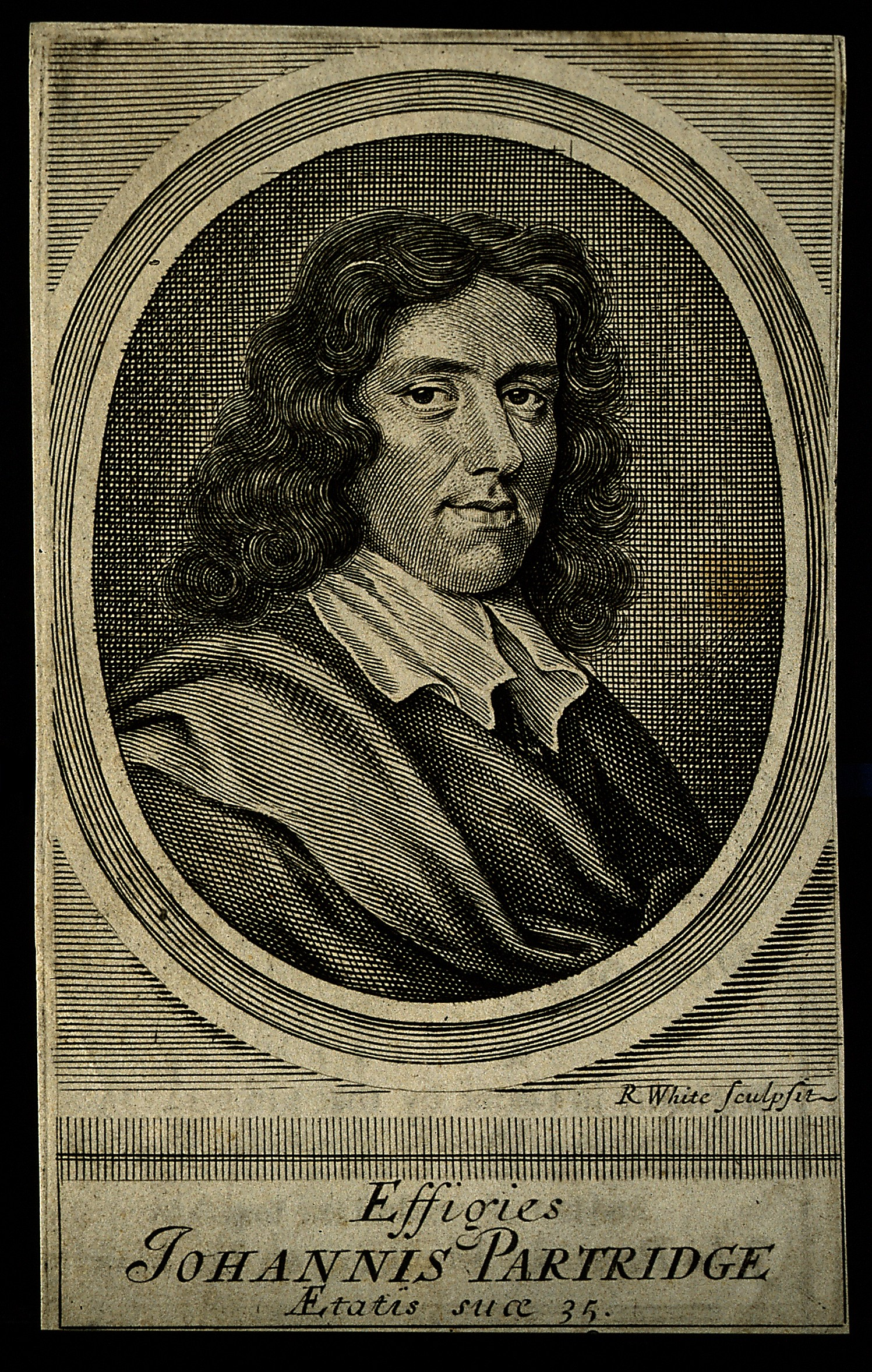 John Partridge. Line engraving by R. White, 1682, after himself. Iconographic Collections Keywords: John Partridge; Robert White